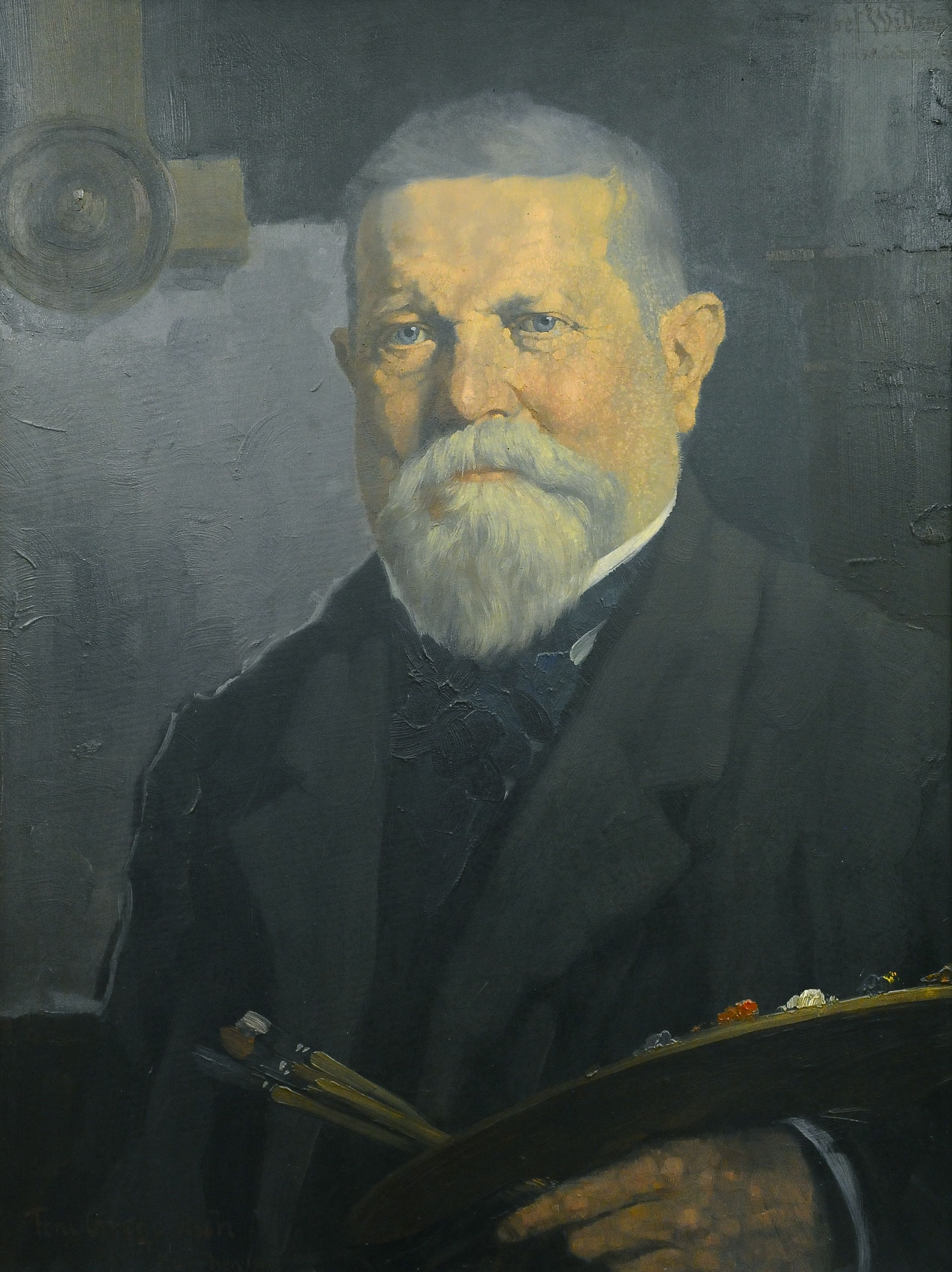 Portrait of Josef Willroider